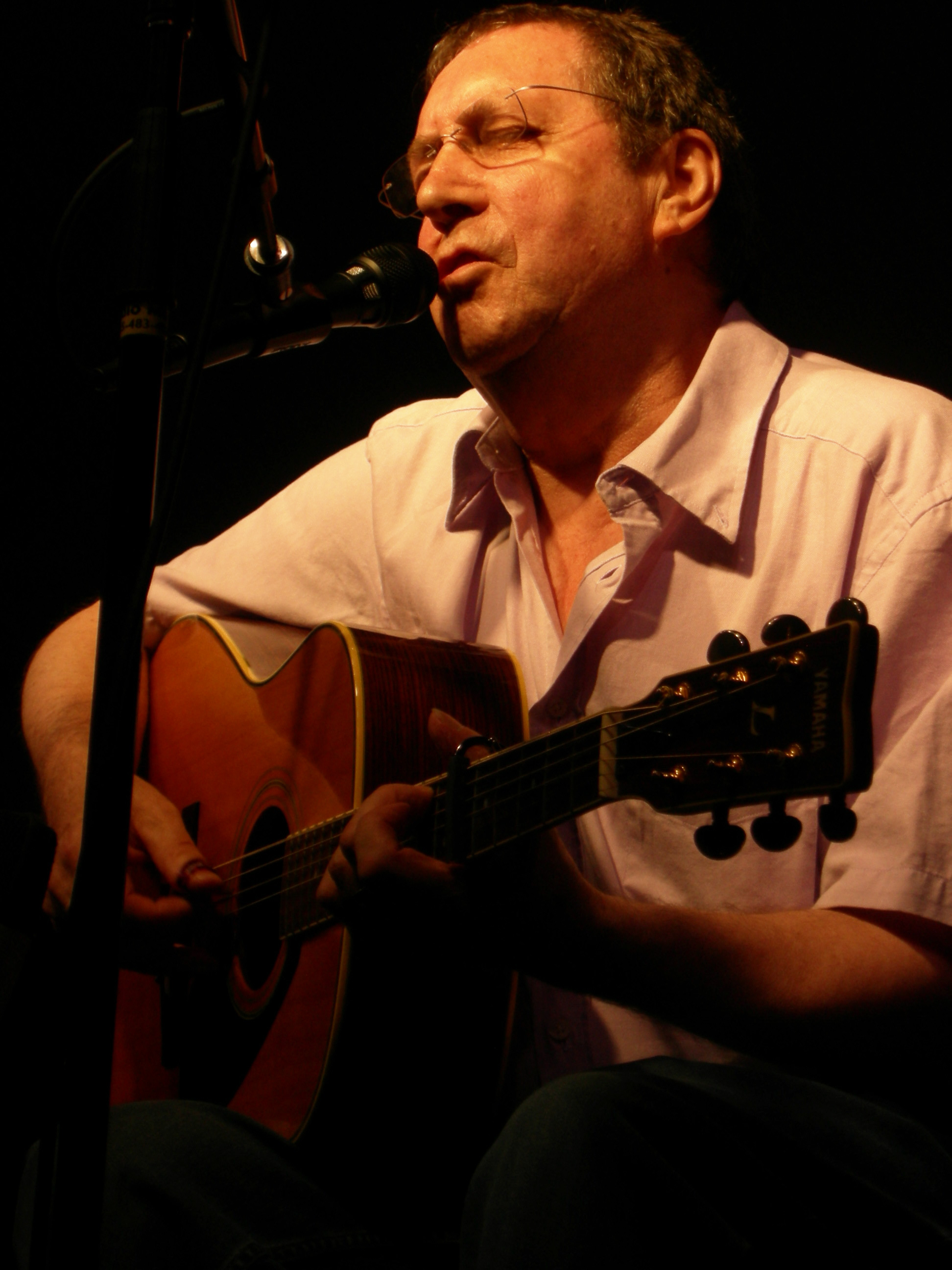 Bert Jansch performs at Bumbershoot, a music and arts festival held every Labor Day weekend at Seattle Center, Seattle, Washington, USA.